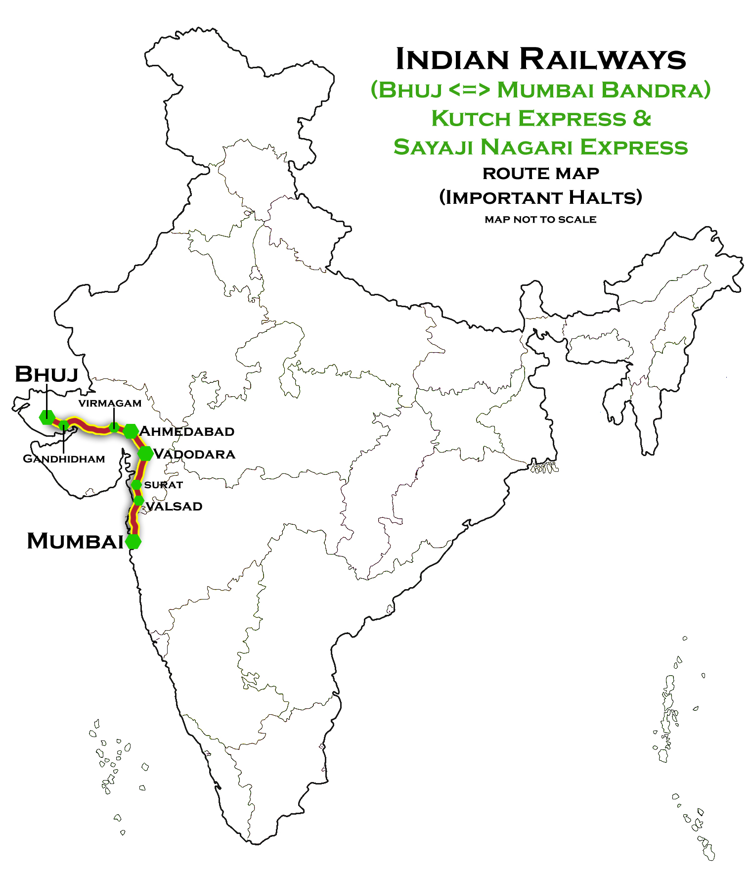 Kutch Express and Sayaji Nagari Express (Bhuj - Mumbai) Route map